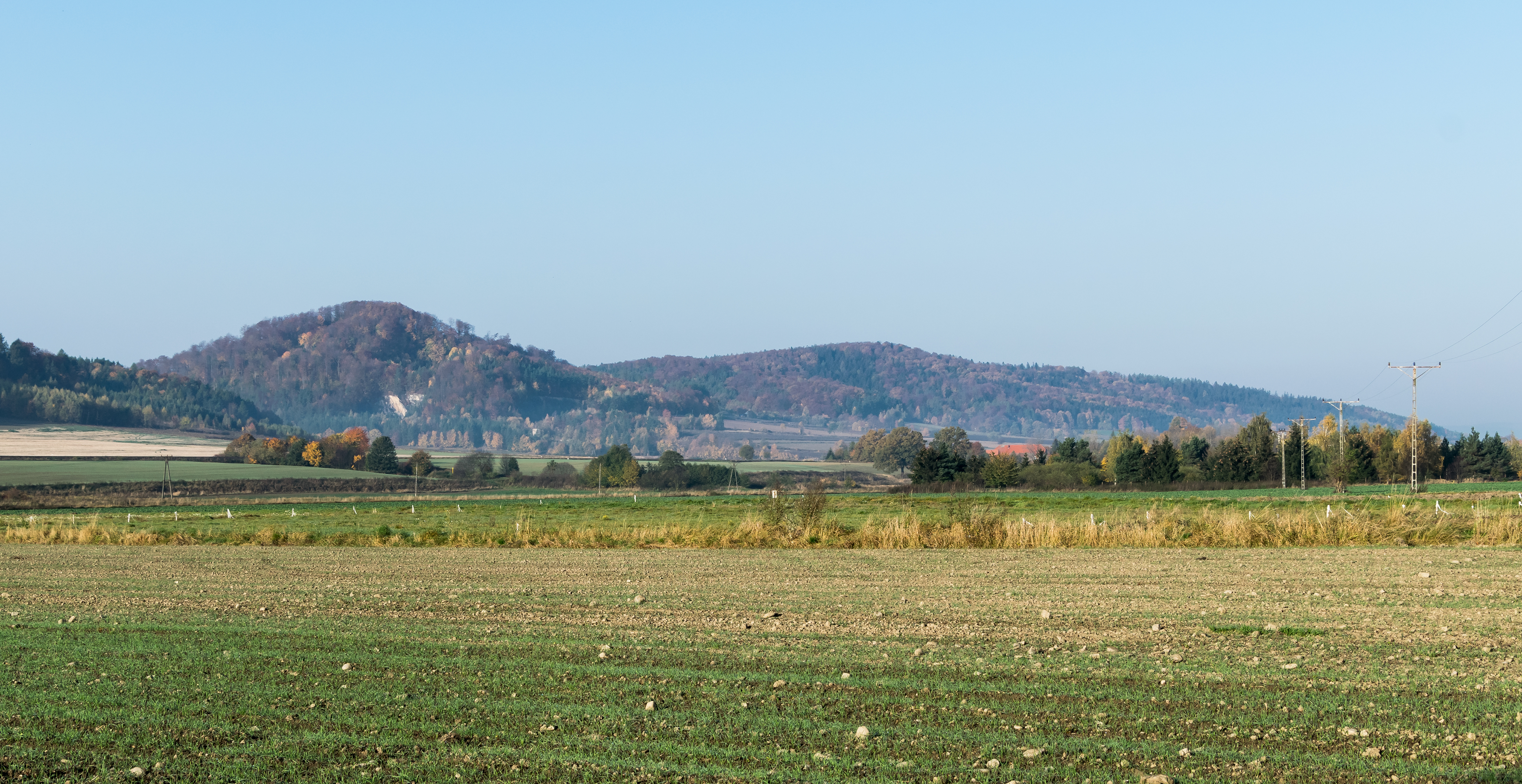 Wapniarka and Dębowa, Krowiarki, Sudetes